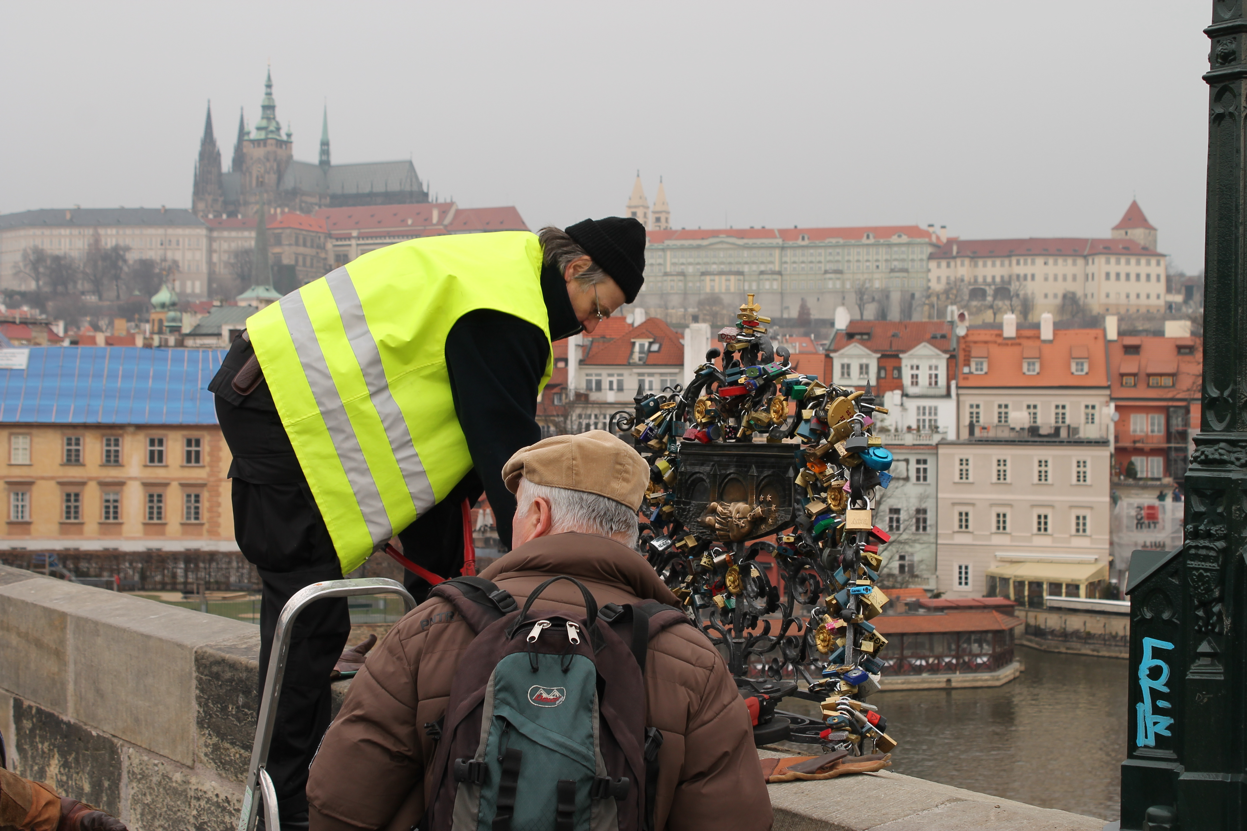 Love padlocks removing at Charles Bridge in Prague (Cross of John of Nepomuk)